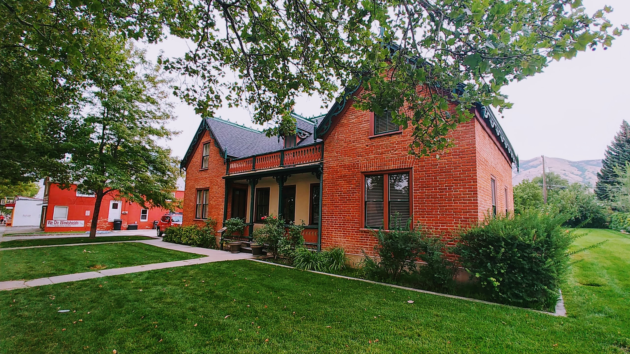 Pioneer home on Brigham City Main Street